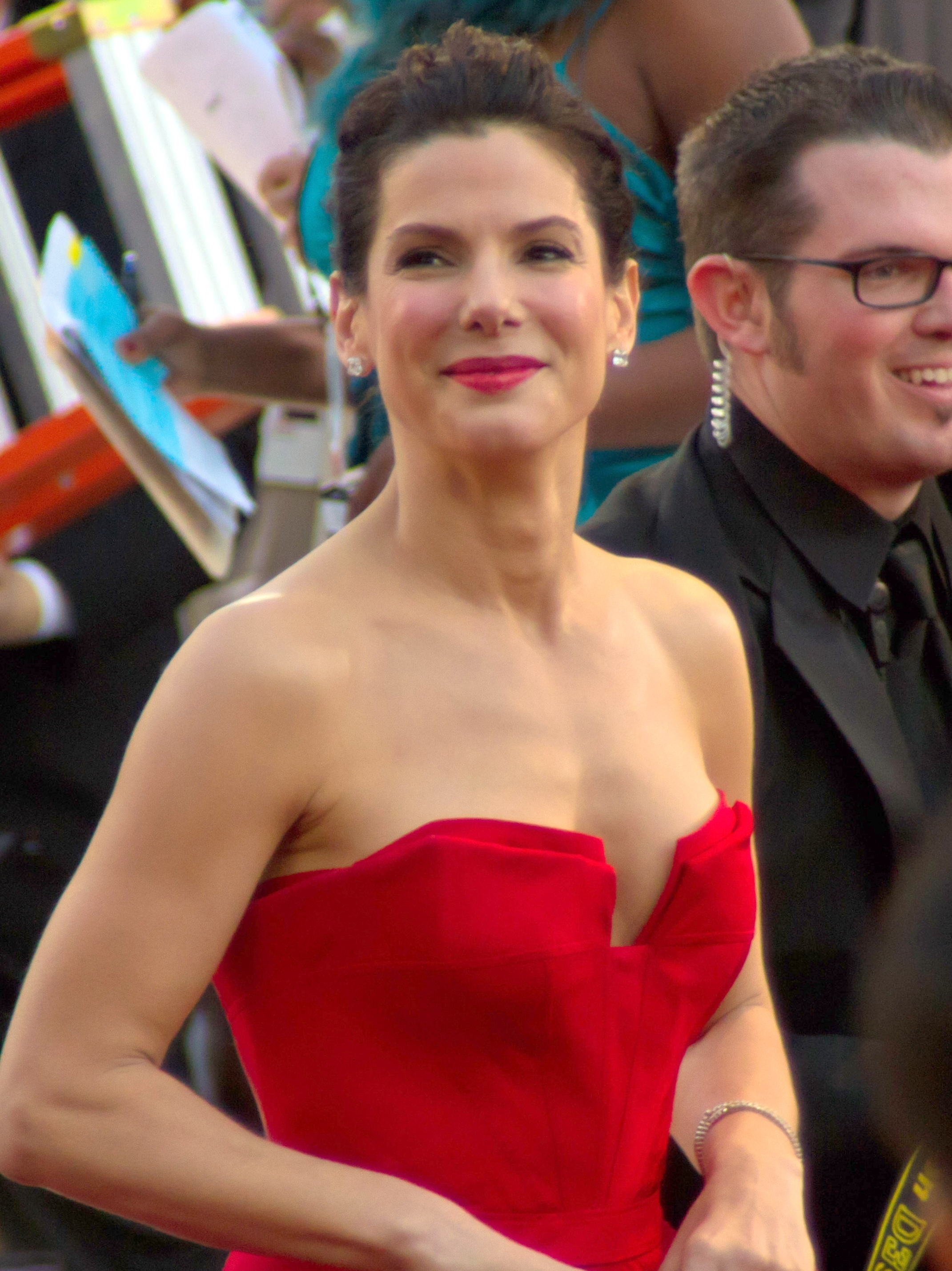 Actress Sandra Bullock at the 83rd Academy Awards.